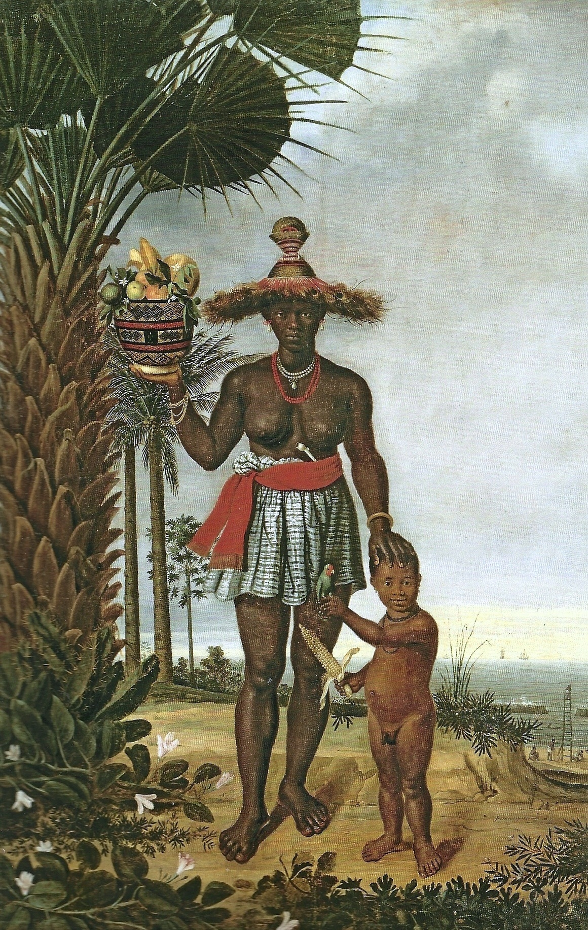 African woman with her son